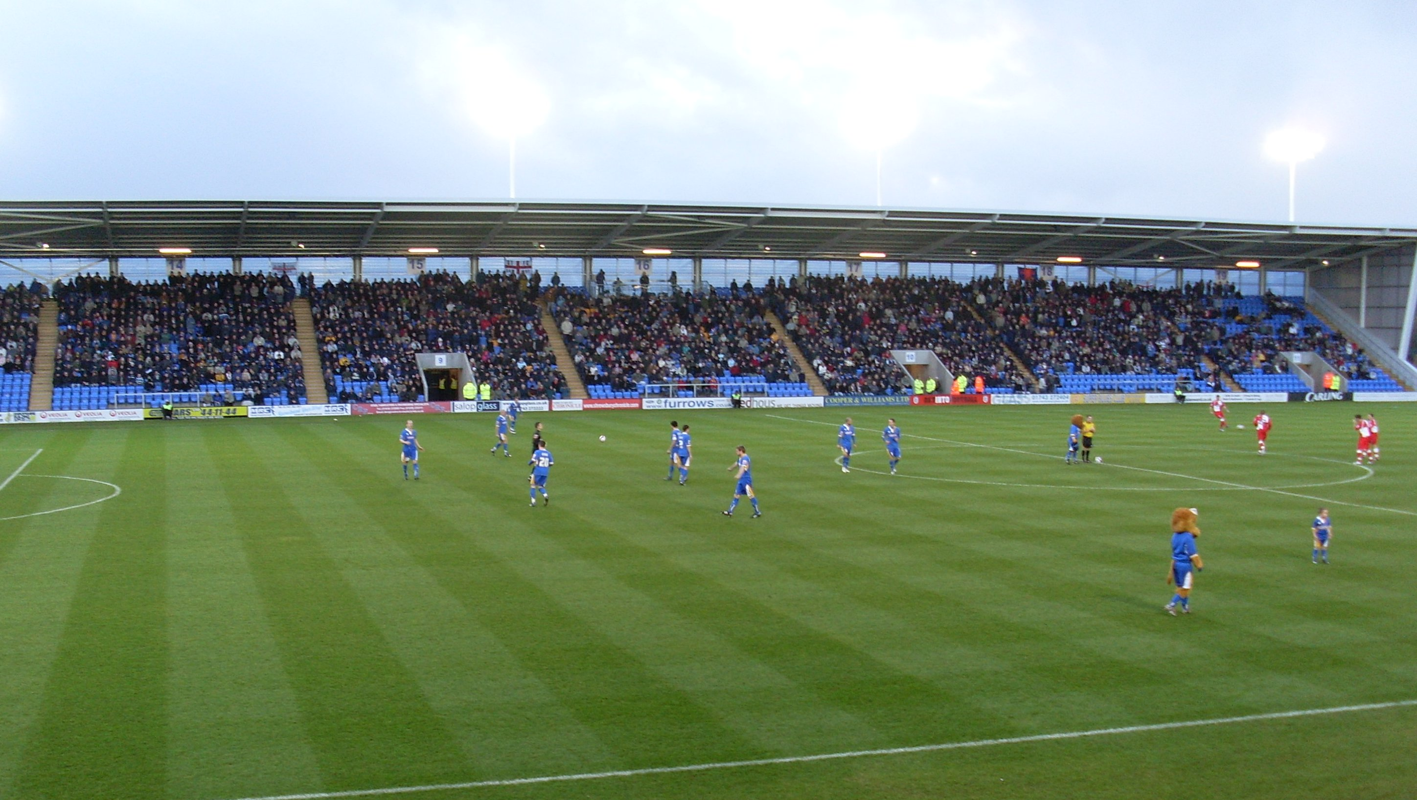 Inside Shrewsbury Town's New Meadow stadium, taken moments before kick-off at the match between Shrewsbury and Wycombe. The view is looking from the Roland Wycherley Stand towards the West Stand. To be added to the article: New Meadow